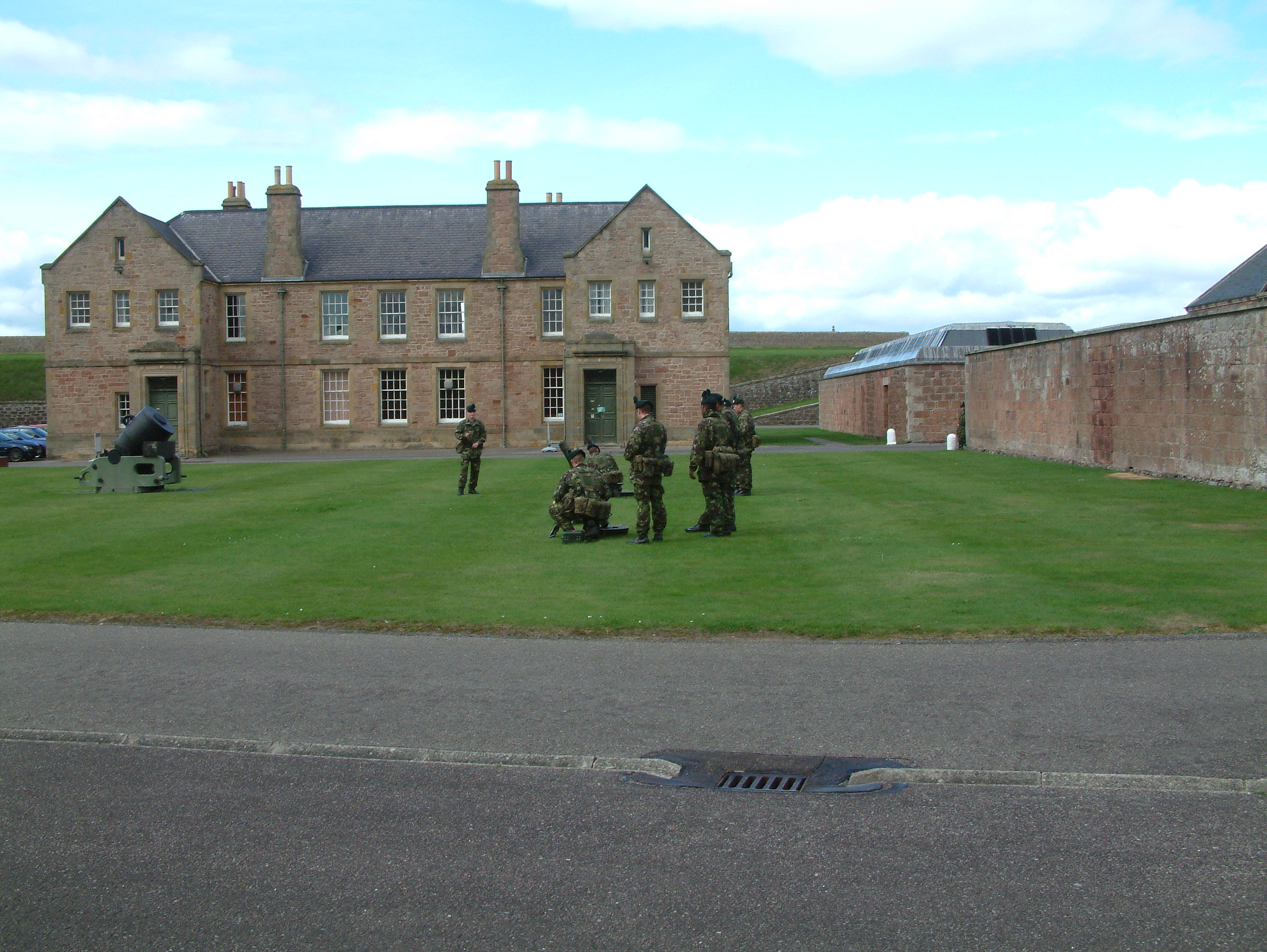 Soldiers in Fort George, Scotland.